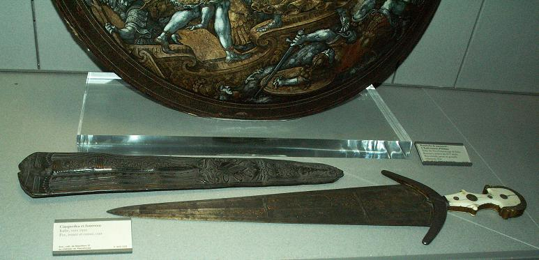 Cinqueda